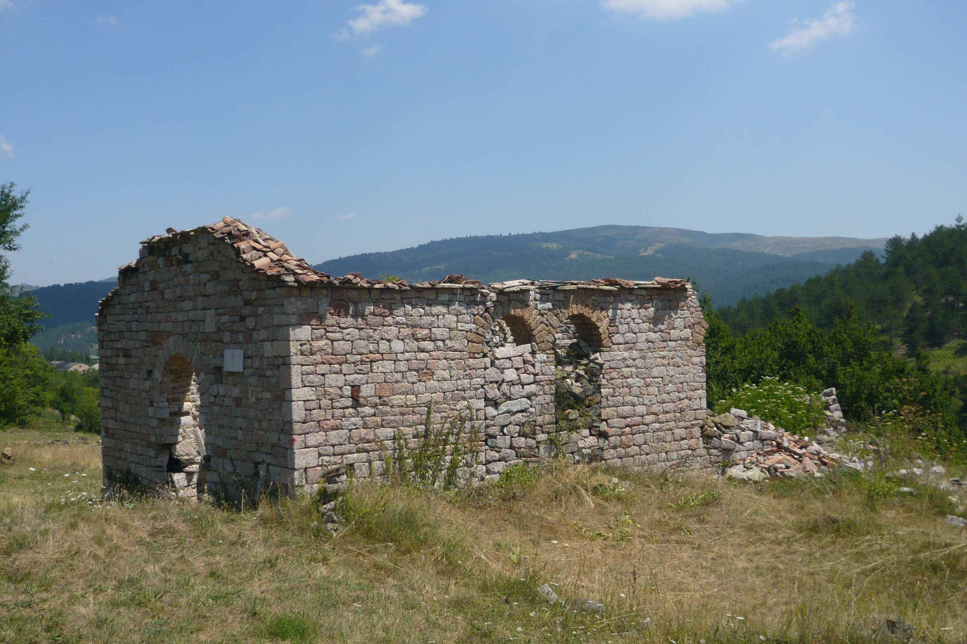 St. Charalampus Church, Voskopojë (Moscopole)